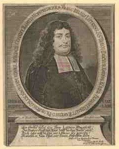 Portrait of Franz Julius Lütkens (d. 1712)